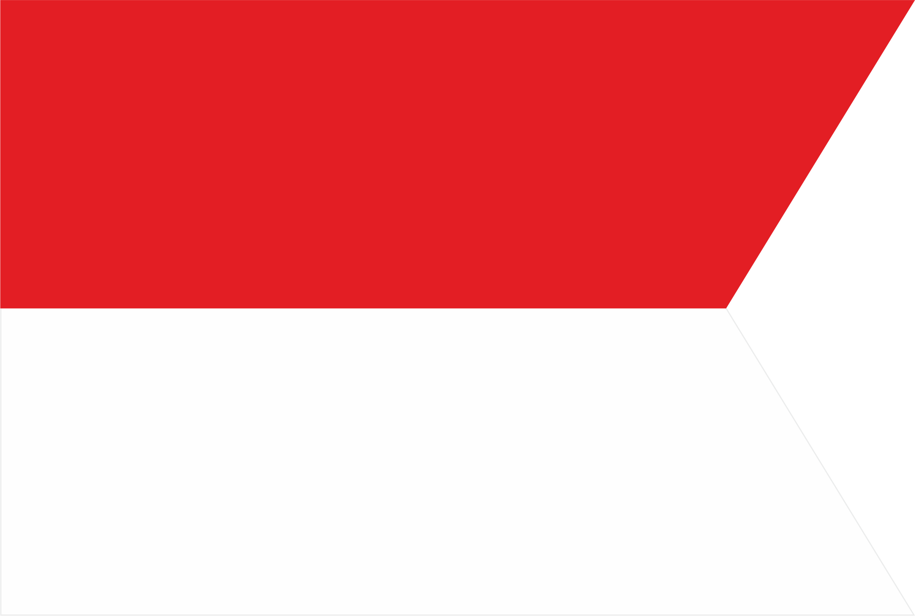 The original Slovak flag described in the Demands of Slovak nation from the 11th of may 1848, directed to the Hungarian governmnent.